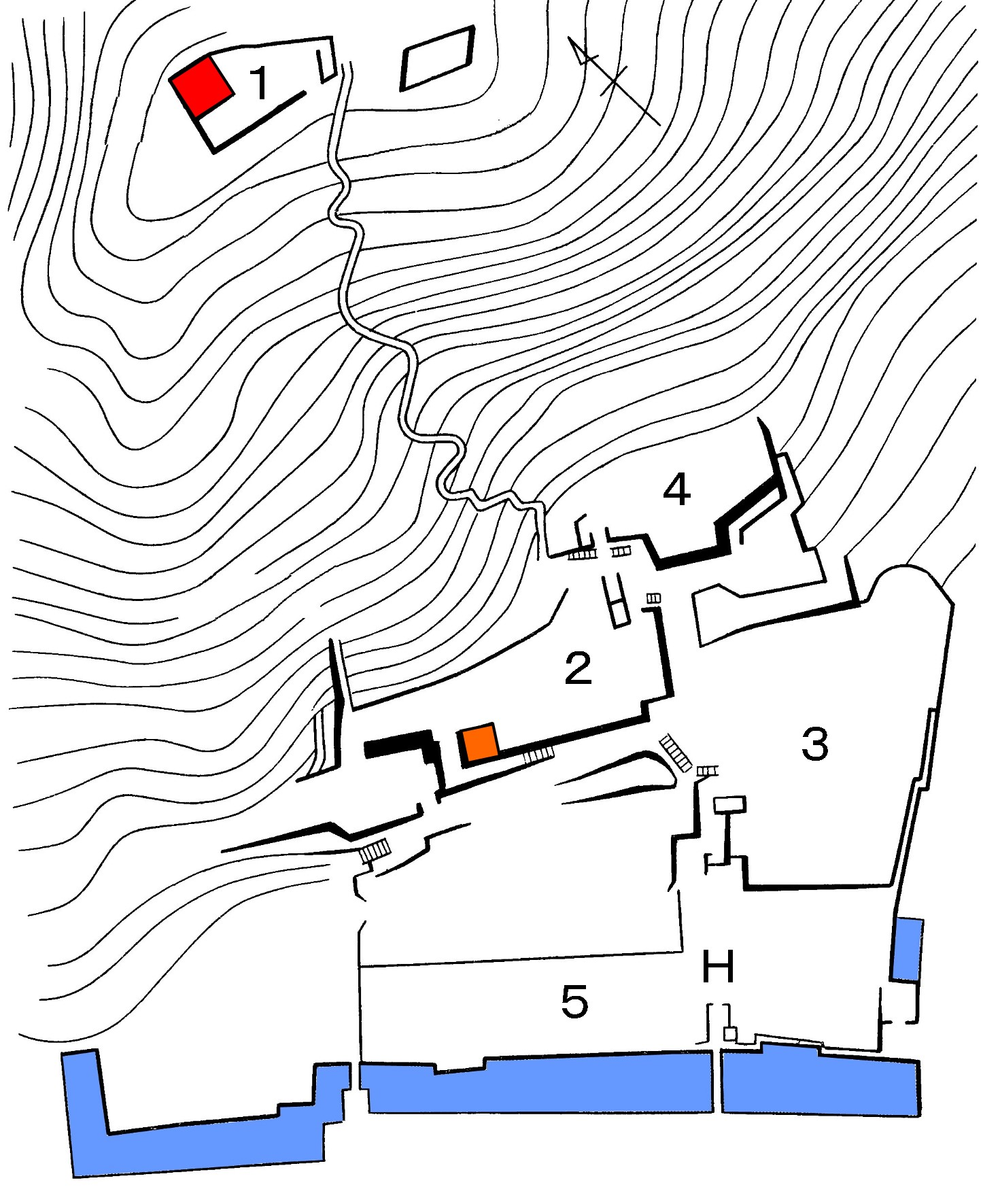 Layout of Tottori Castle